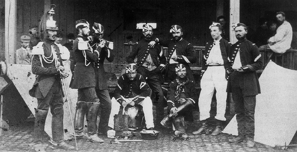 Cuirassiers (Metz, 1870)